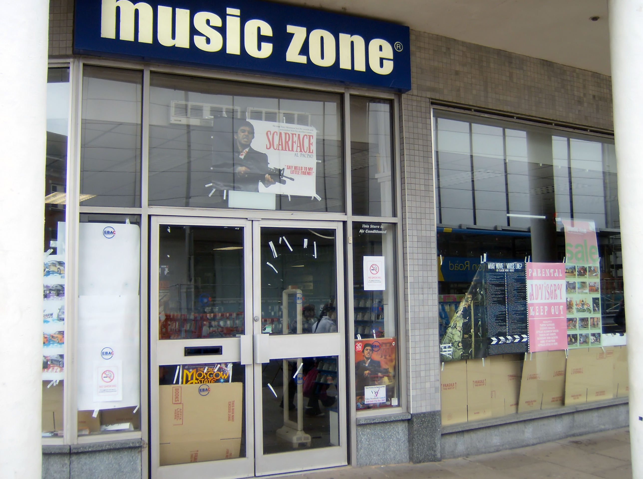 A closed Music Zone store in Exeter, Devon. The retailer ceased trading in January 2007, with the final stores closed in June of that year.